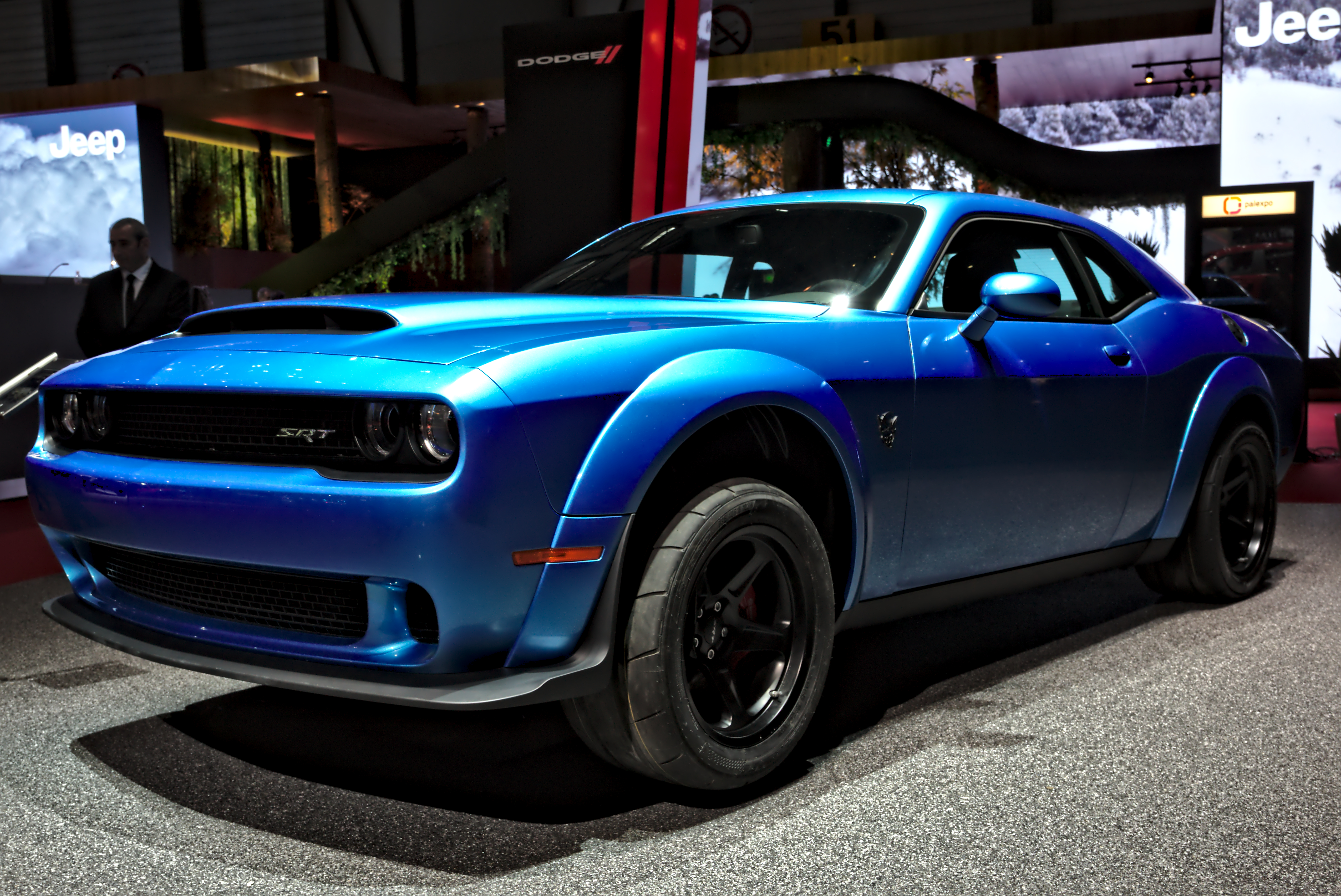 Dodge Challenger Demon at Geneva Motorshow 2018